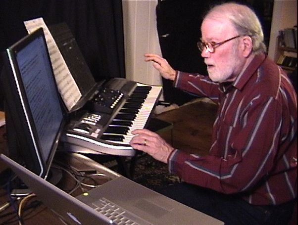 McLean performing "Ice Canyons" in preparation for recording